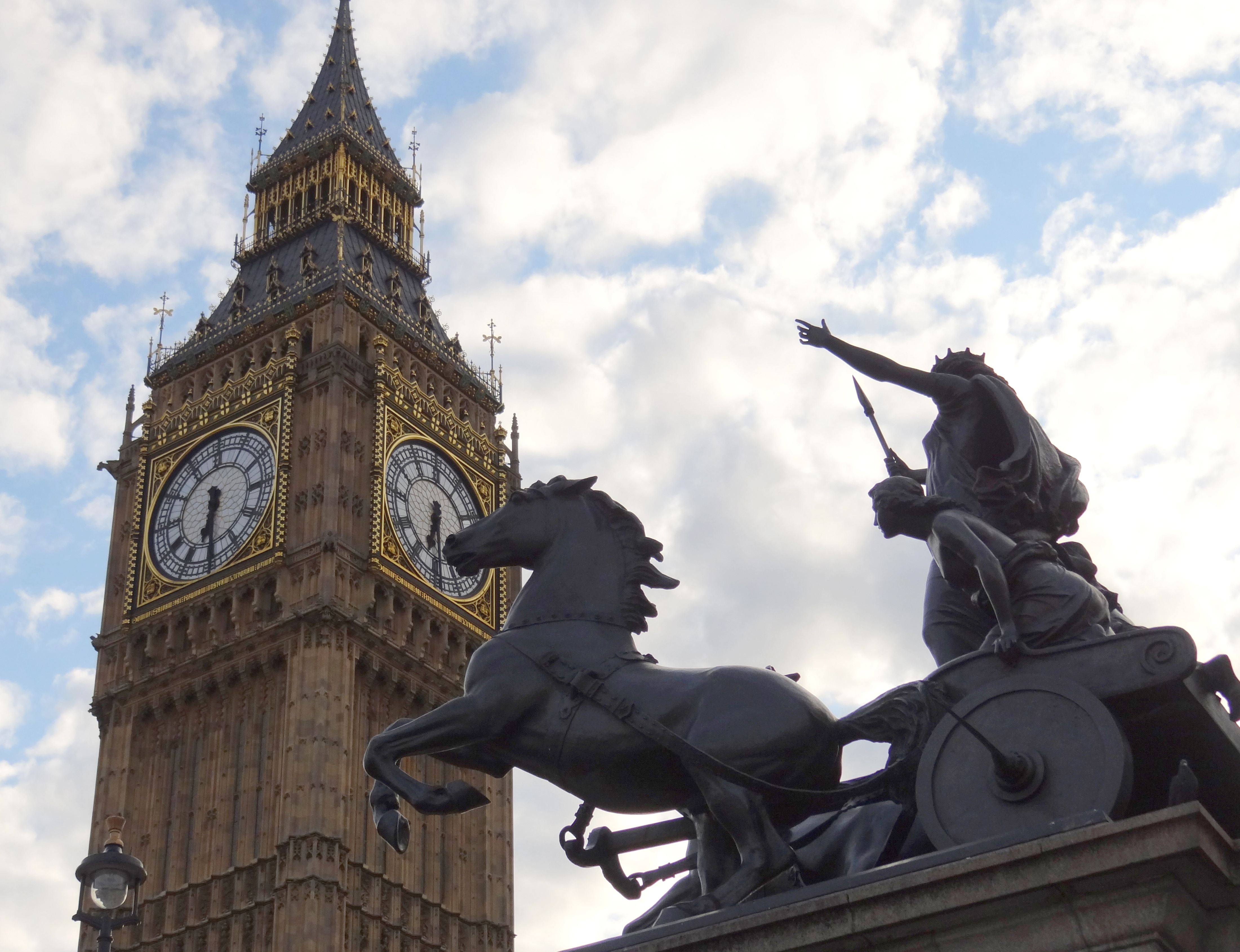 The Elizabeth Tower (Big Ben) and The Boudicca Statue.